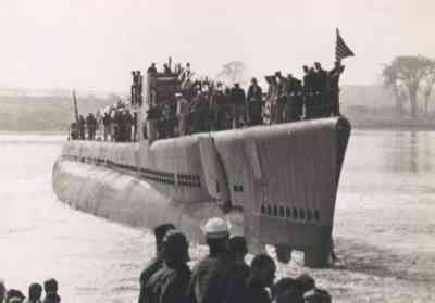 USS Pipefish (SS-388) at Portsmouth Navy Yard, Kittery, ME., 12 October 1943. From NavSource Online: Submarine Photo Archive Source listed as "USN photo courtesy of Grover A. Kiick, MM1, (USN Ret)"